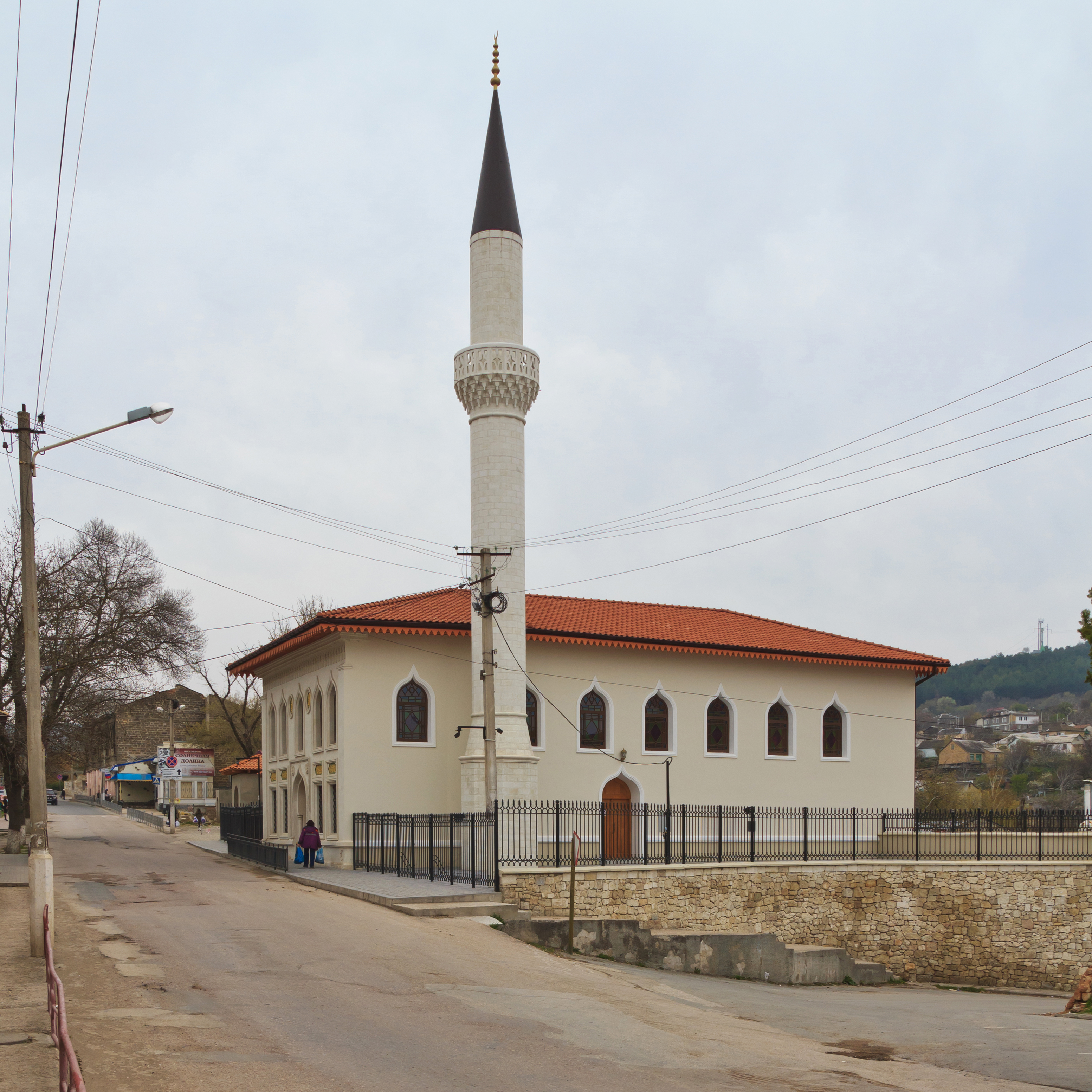 The Orta Juma Jami Mosque in Bakhchisaray, Crimean Peninsula.